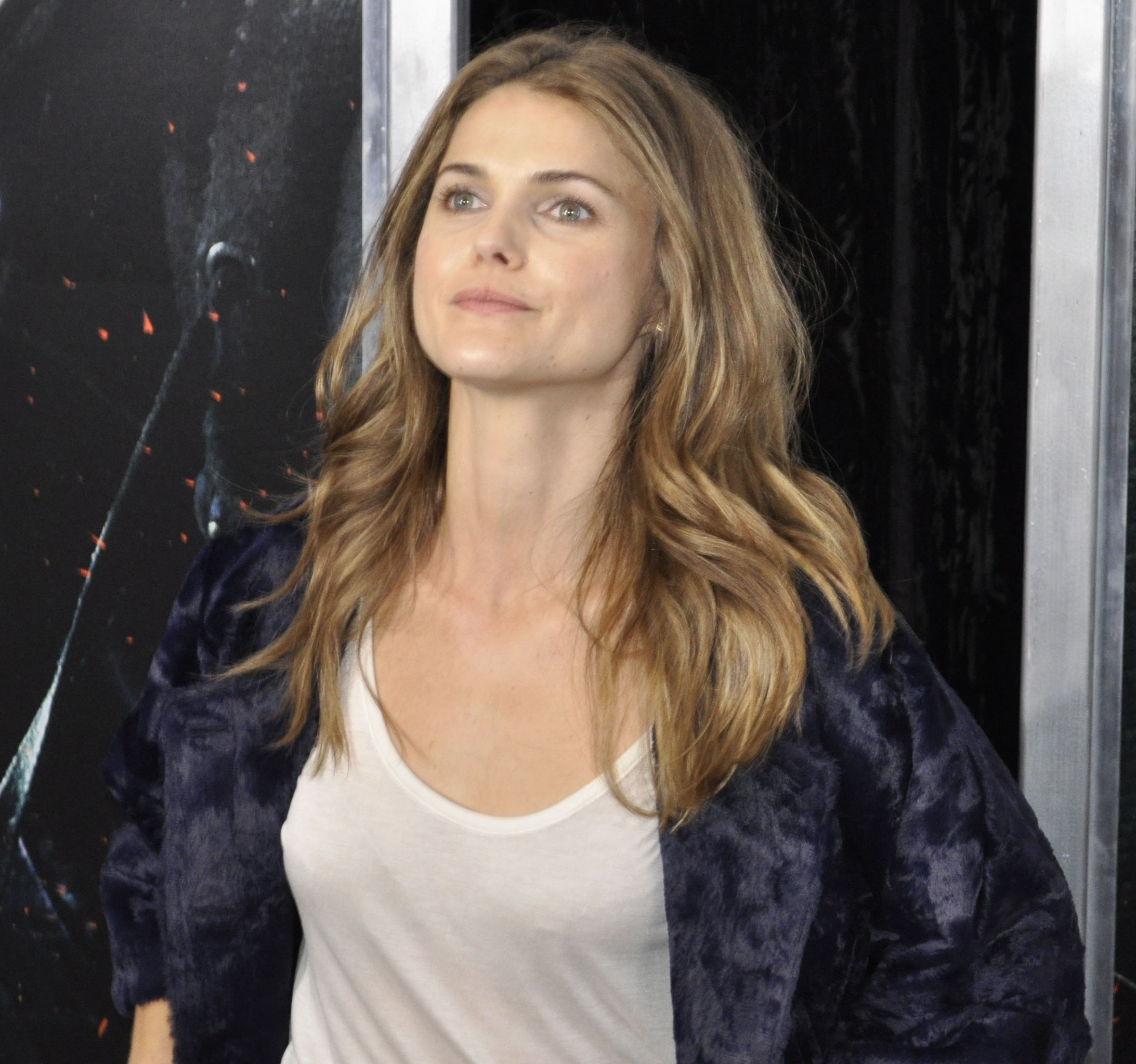 Keri Russell at the film premiere of Harry Potter and The Deathly Hallows in Alice Tully Center, New York City in November 2010.